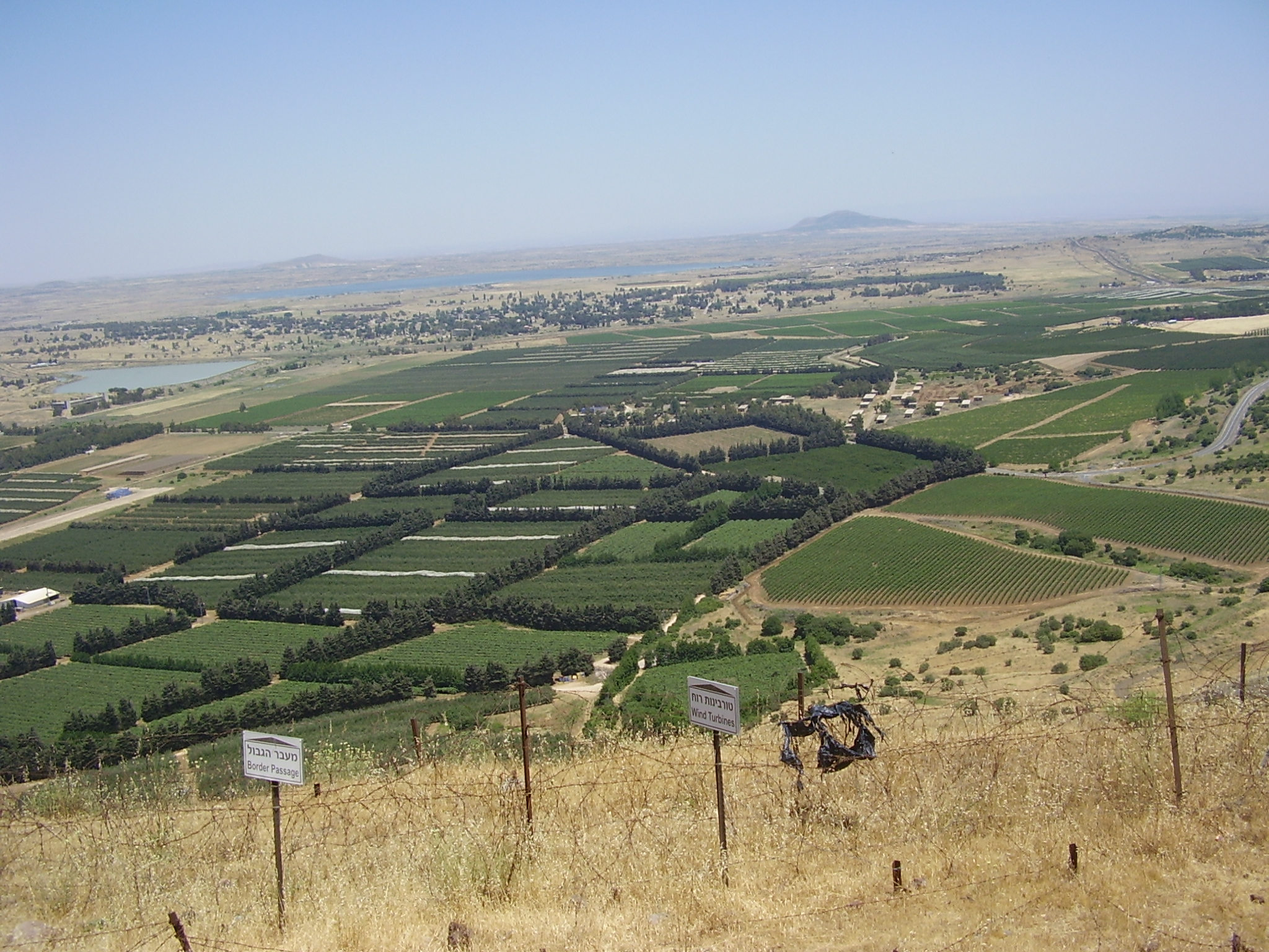 View from Mt. Bental